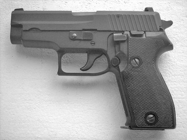 SIG-Sauer P225